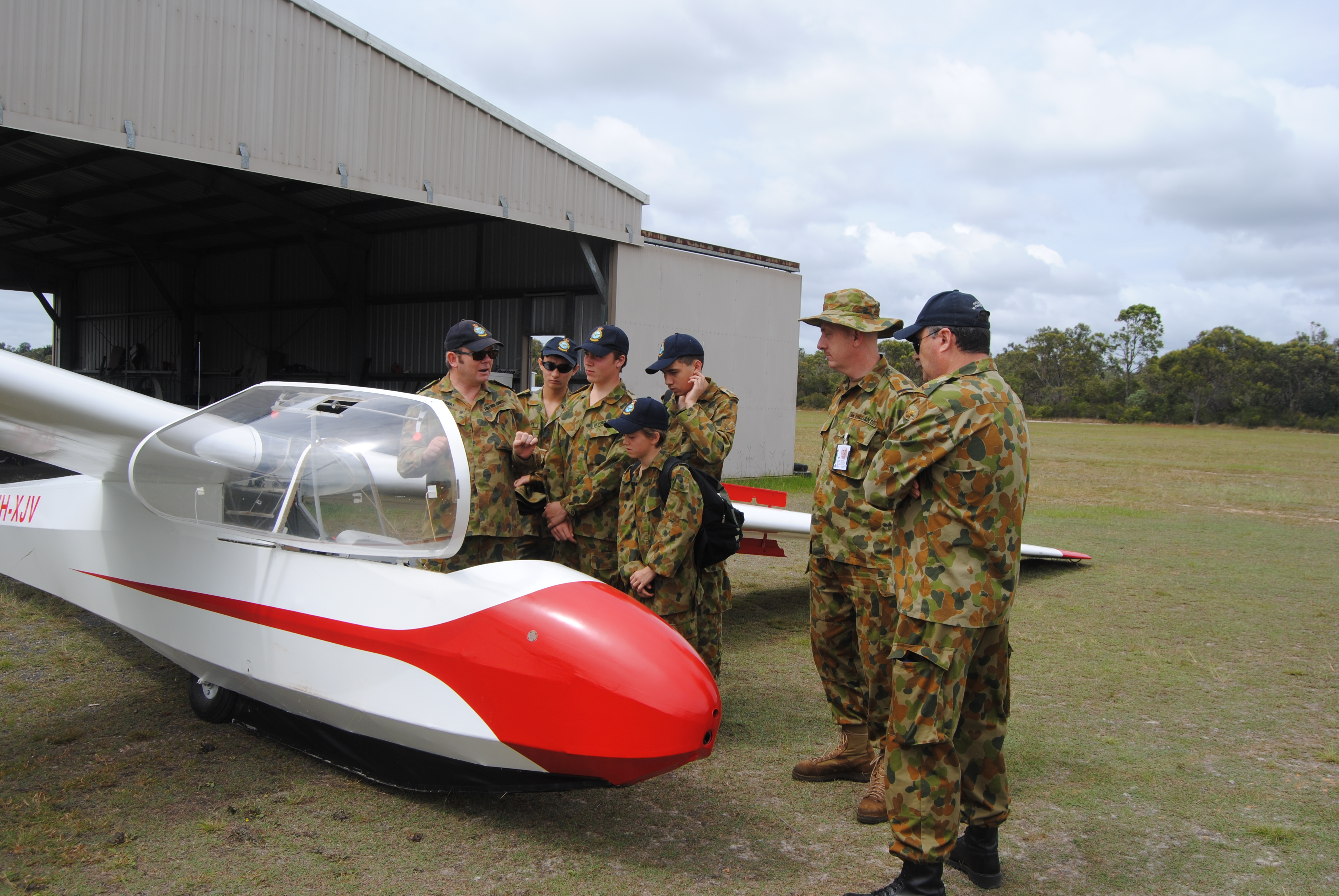 Gliding training picture, taken in 2010